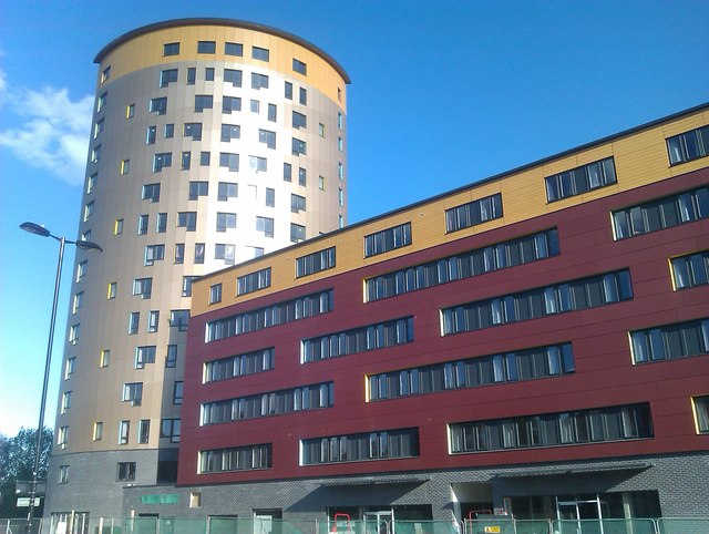 City gateway student tower southampton